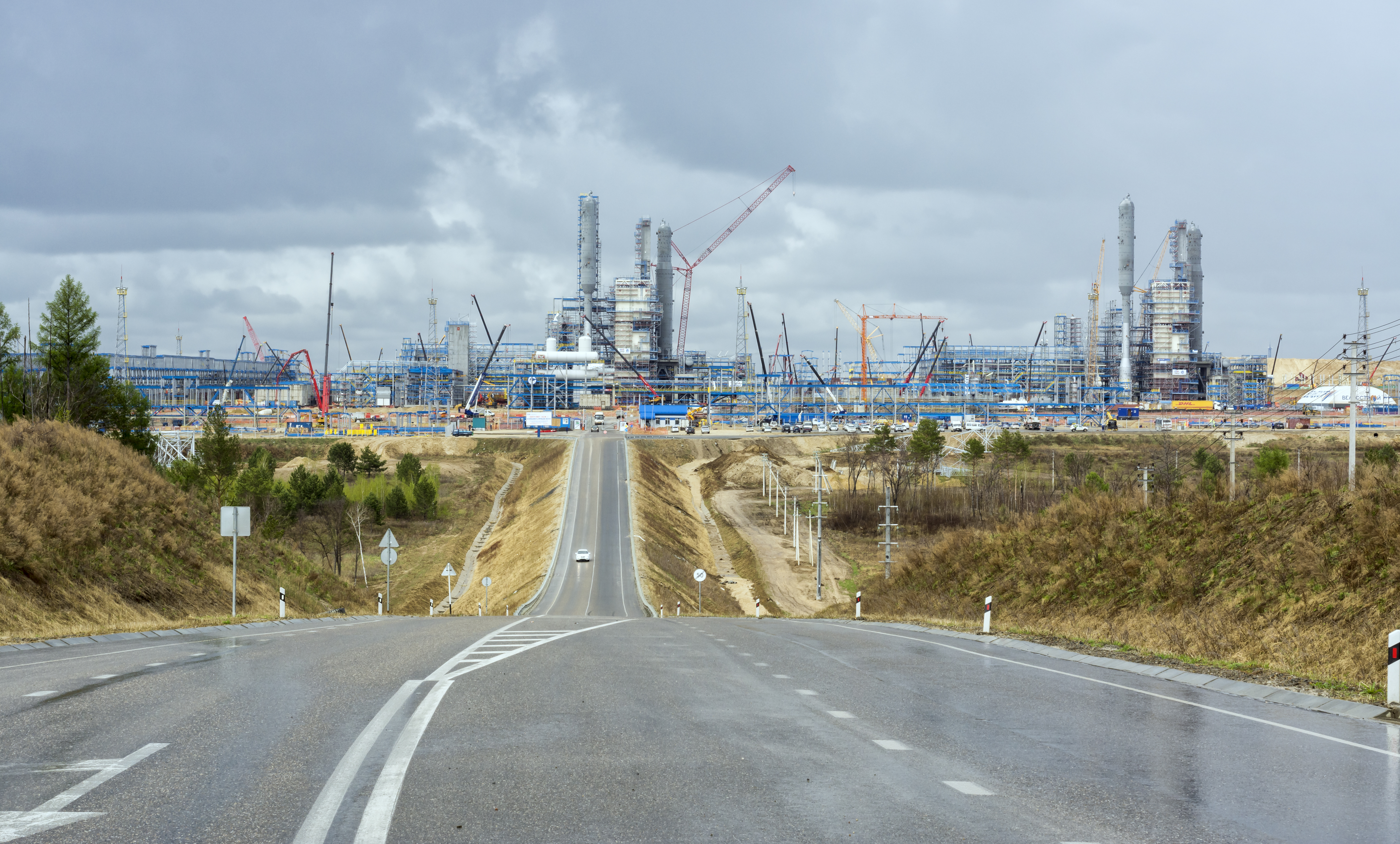 Amur gas processing plant during construction